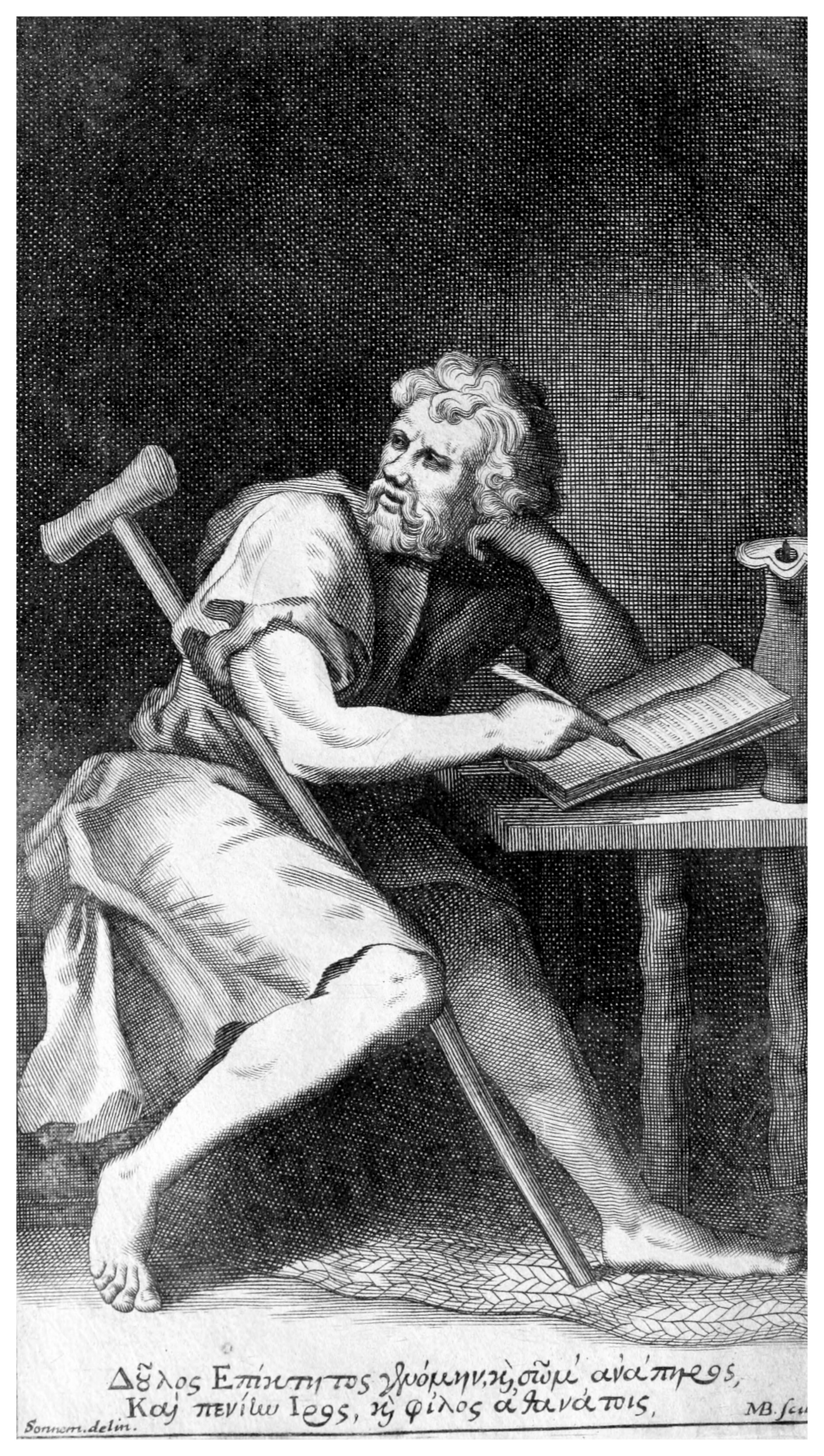 Imaginary portrait of Epictetus. Engraved frontispiece of Edward Ivie’s Latin translation (or versification) of Epictetus’ Enchiridon, printed in Oxford in 1715. Original title of the book: “Epicteti Enchiridion Latinis versibus adumbratum. Per Eduardum Ivie A. M. Ædis Christi Alumn. […] Oxoniæ, Theatro Sheldoniano, MDCCXV. […]” The subscription is an epigramm from the Anthologia Palatina (VII 676) and reads: Δοῦλος Ἐπίκτητος γενόμην, καὶ σῶμ’ ἀνάπηρος, καὶ πενίην Ἶρος, καὶ φίλος ἀθανάτοις. “I was Epictetus the slave, and not sound in all my limbs, and poor as Irus, and beloved by the gods.” (Irus is the beggar in the Odyssey.)